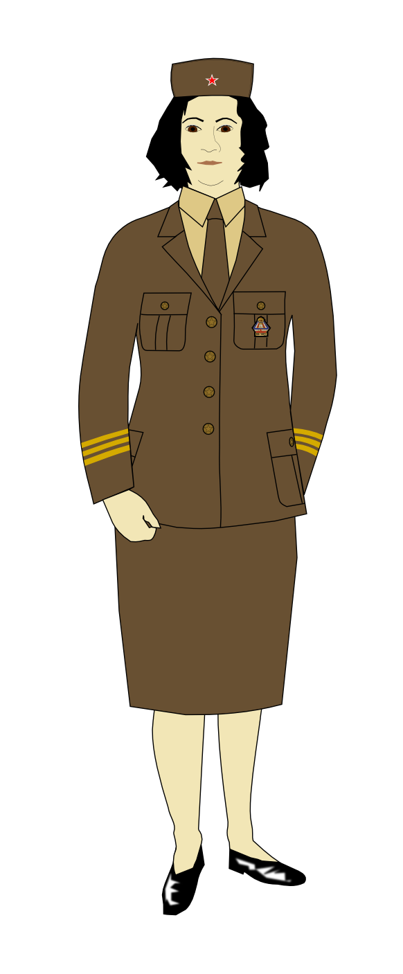 Yugoslavian Customs Officer in 1976- Woman uniform. Based on legal prescriptions in official journals: Uradni list SFRJ št. 12 (11. 03.1971). »Pravilnik o službeni obleki carinskih delavcev«. Str. 229-230. Uradni list SFRJ br. 14 (9. travnja 1976). »Pravilnik o izmjeni i dopuni pravilnika o službenom odijelu radnika carinske službe.« Str. 363-364.